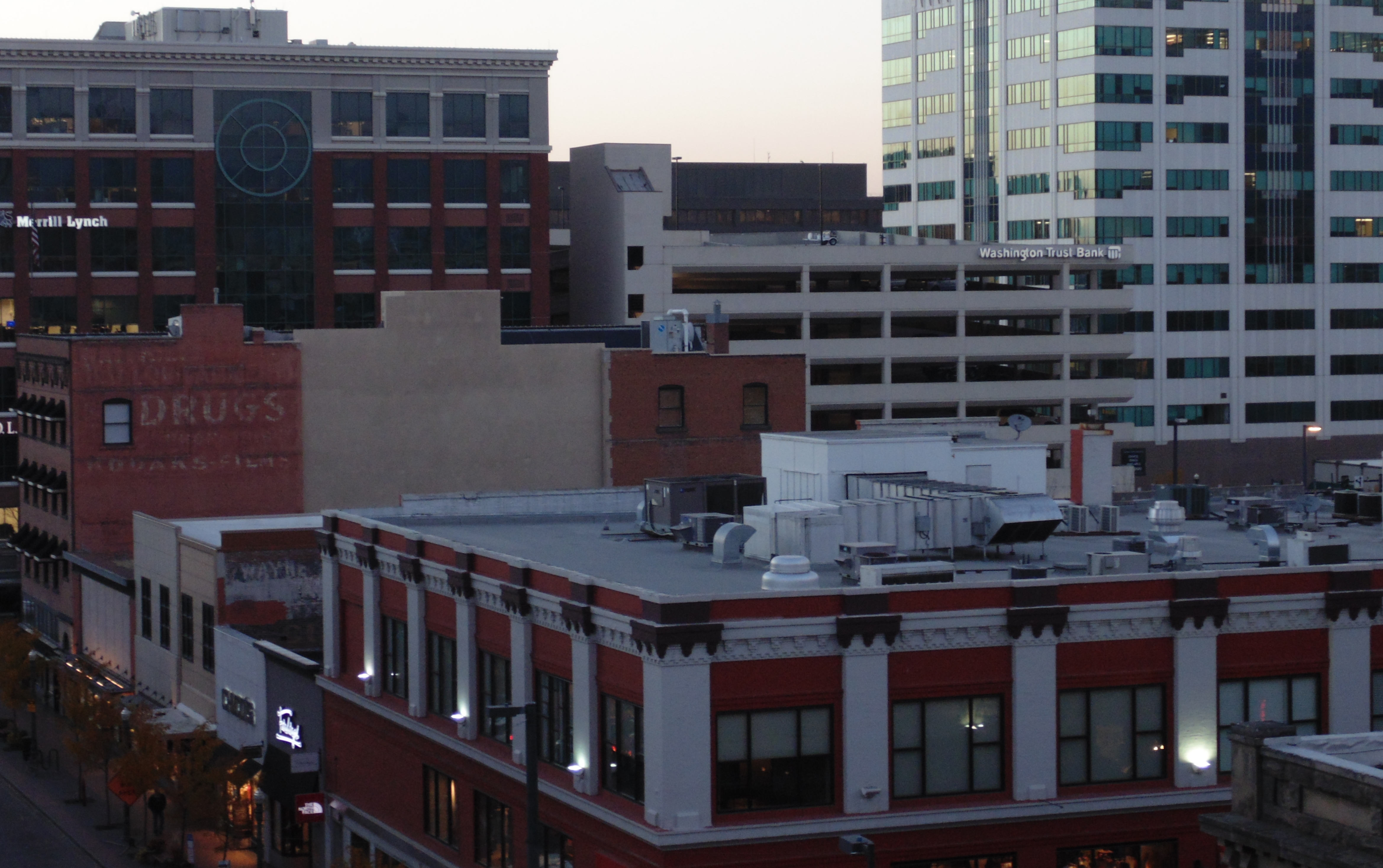 Downtown Boise, Idaho - 2013